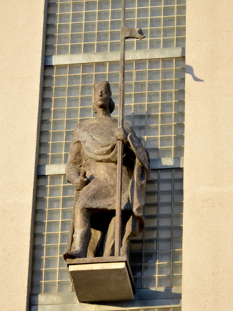 Sculpture of St. Venceslav by Bedřich Stefan (1929) and Jan Roith (2010)